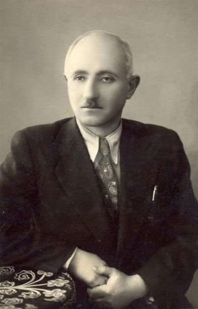 Seyid Cəfər Pişəvəri Watermark from image: Fotobank